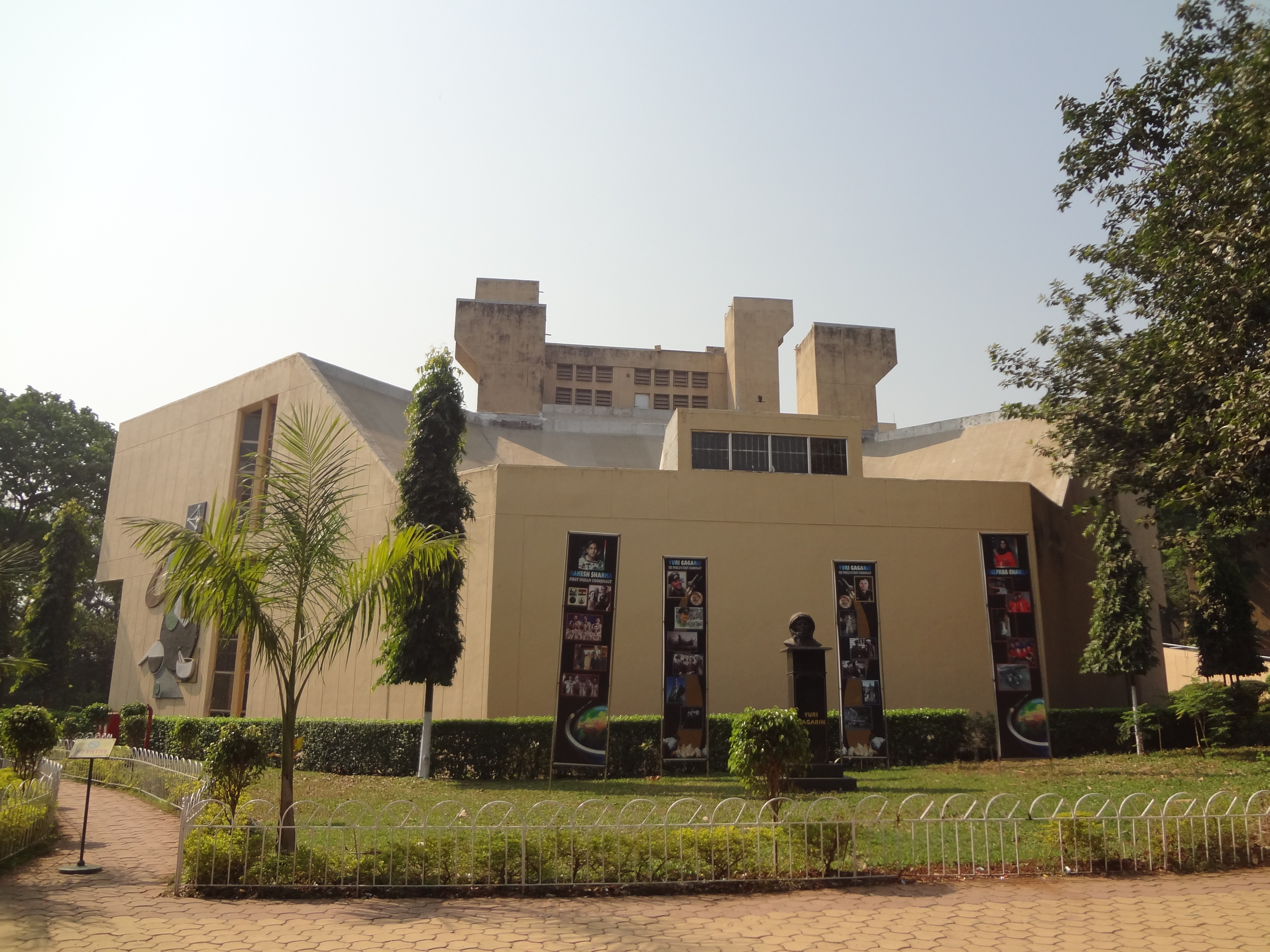 Mumbai Photowalk II